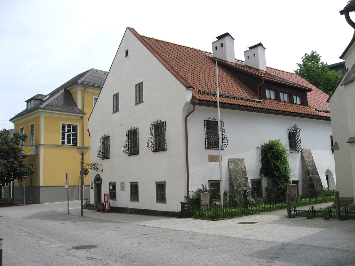 Sights of Vöcklabruck in Upper Austria, here the Heimathaus, one of the oldest buildings in town that was mentioned as early as 1450, located in the Hinterstadt just behind the place where the former city walls had been and which is now hosting a small city museum